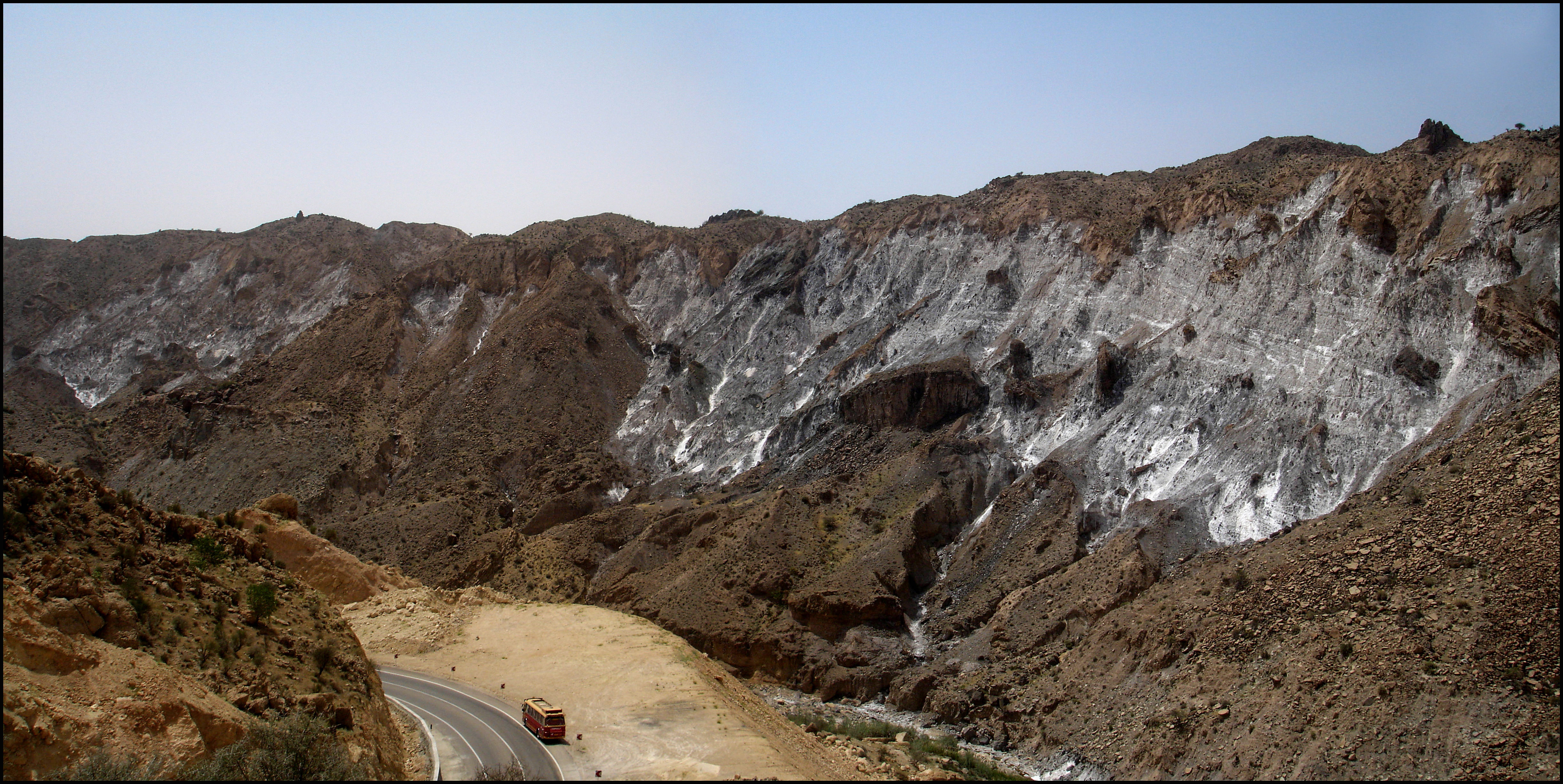 Konar Siyah salt dome, Firuzabad, Fars, Iran